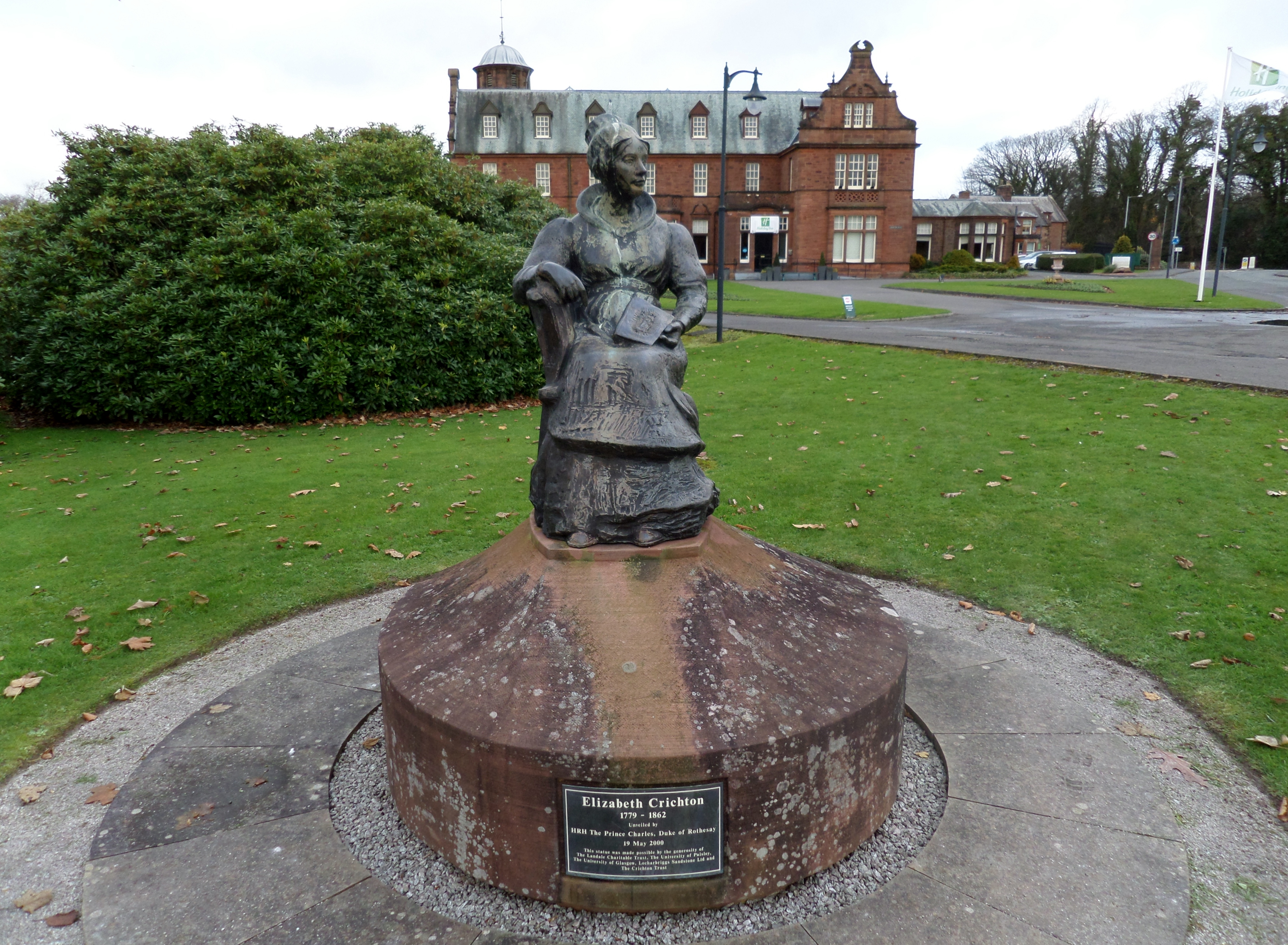 Elizabeth Crichton Statue, Crichton Royal Hospital, Dumfries, Scotland. Wife of James Crichton of Friars Carse she donated funds to establish the hospital.